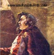 Ivan Antun Zrinski, Croatian count and military officer (1651-1703)